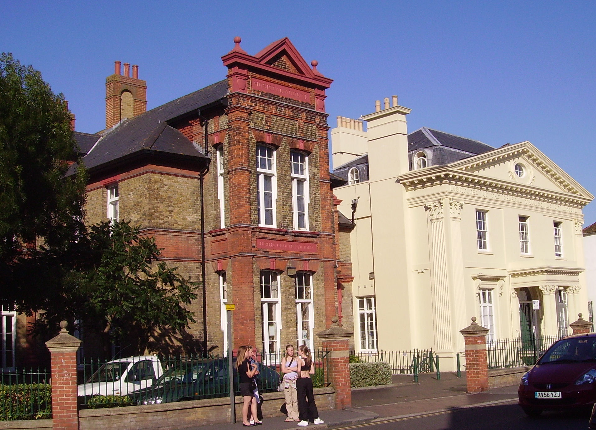 Royal Victoria Place, High Street, Dover, Kent, England, seen from the west. The neoclassical building on the right built as Brook House, but in 1849 became the Dover Dispensary. The dispensary became a hospital and the brick building on the left is the Hospital Annexe, built in 1887 to celebrate the Golden Jubilee of Queen Victoria. The Royal Victoria ceased to be a hospital in 1987 and was converted into apartments in the 1990s.